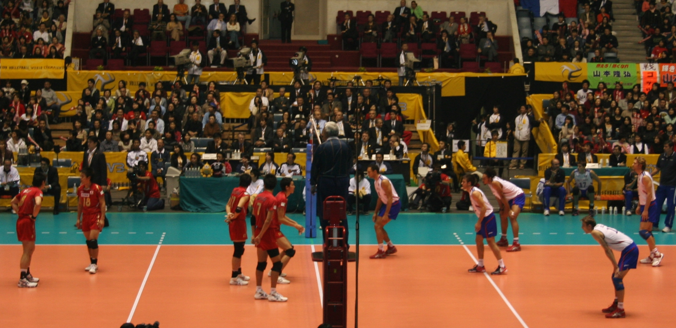 Volleyball World Cup 2006 in Japan. Scene from the match between Japan and France on December 2nd